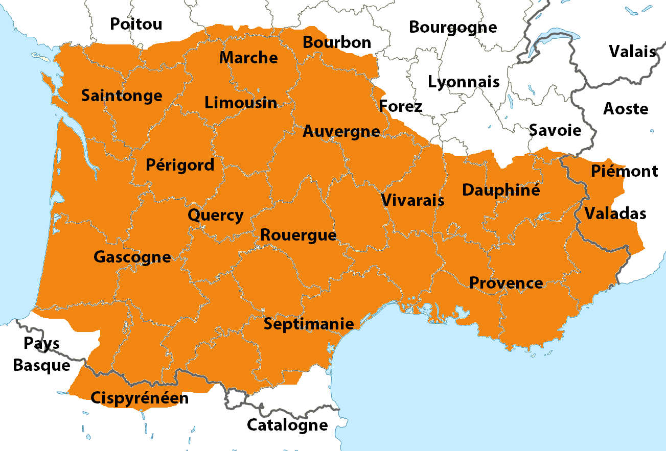 Map of occitan language during the end of the XIIth century.